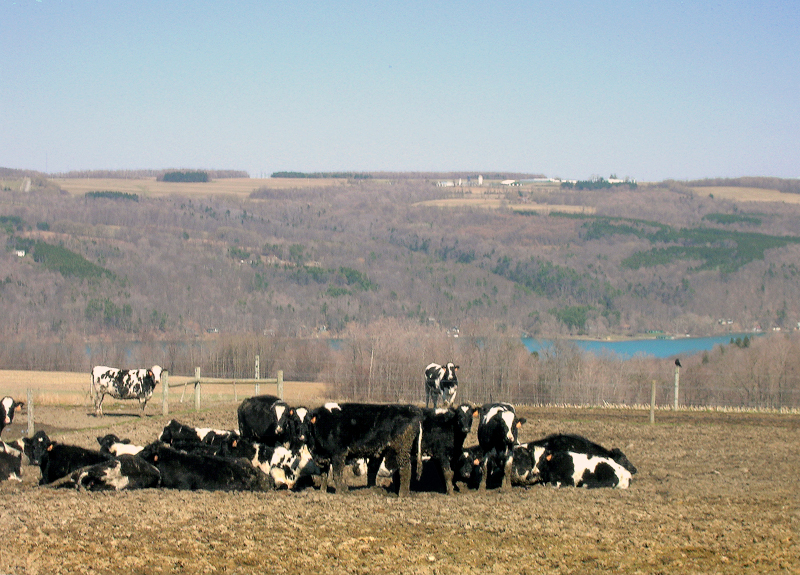 Paul Malo photograph